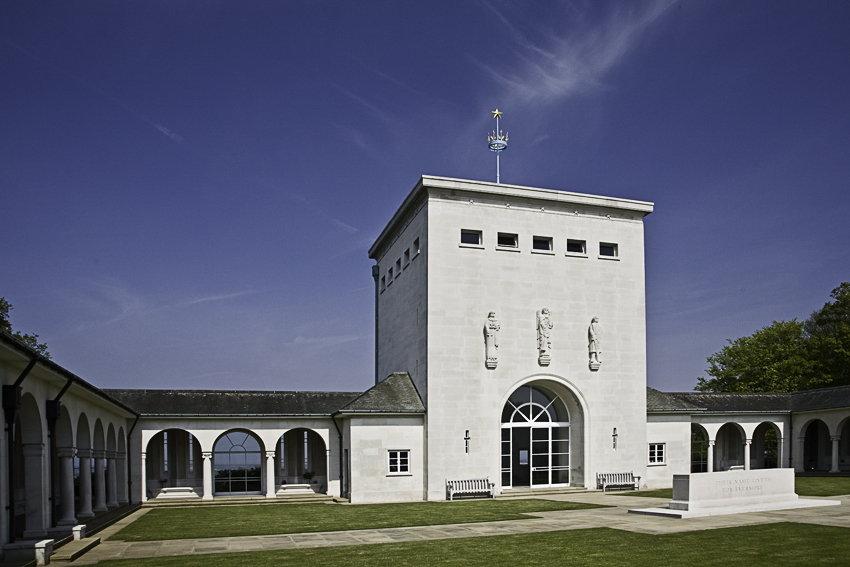 Air Forces Memorial Runnymede England showing cloister with remembrance stone before the central chapel surmounted by the Astral Crown